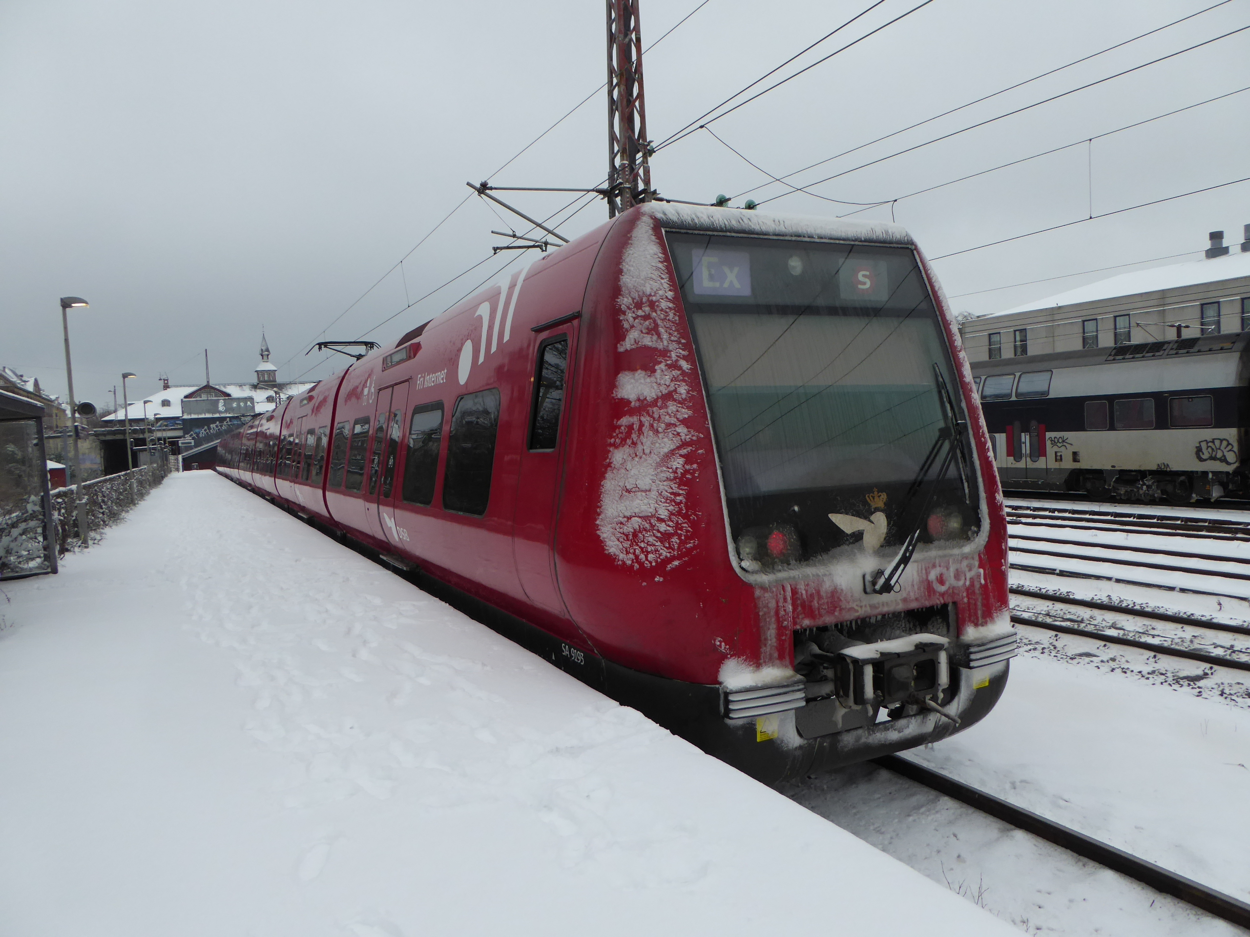 Østerport Station in Østerbro in Copenhagen with snow. The rollsign of a S-train on line H is rolling and briefly shows line Ex, which was closed in 2007.